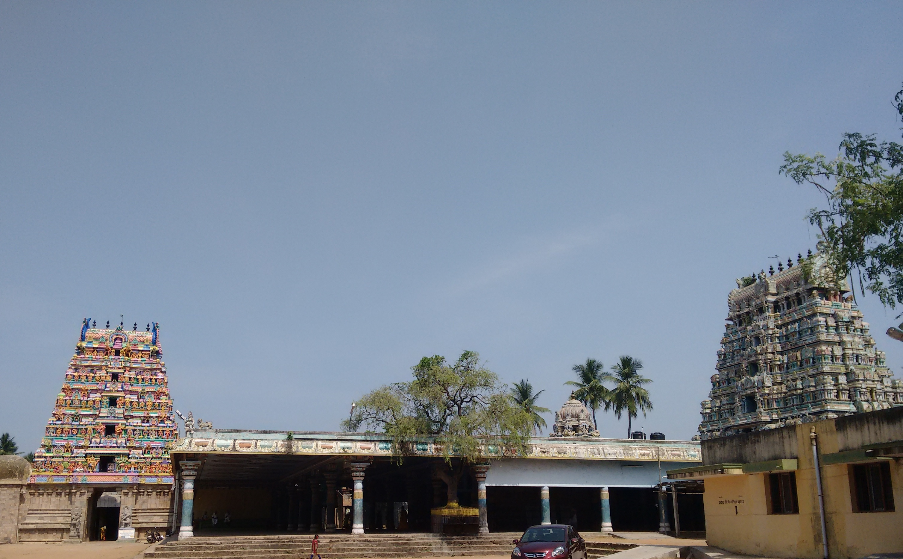 durga shrine in pattisvarar temple பட்டீஸ்வரர் கோயிலில் துர்க்கையம்மன் கோயில்